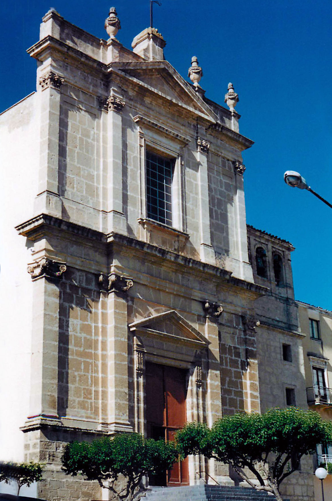 Facade of "Chiesa Madre" church in Villarosa